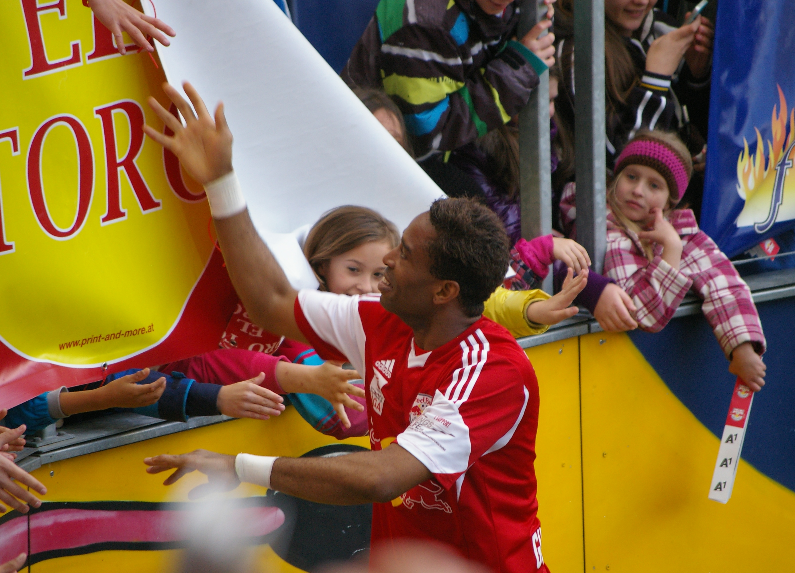 league match Austrian Bundesliga last home match season 2013/14